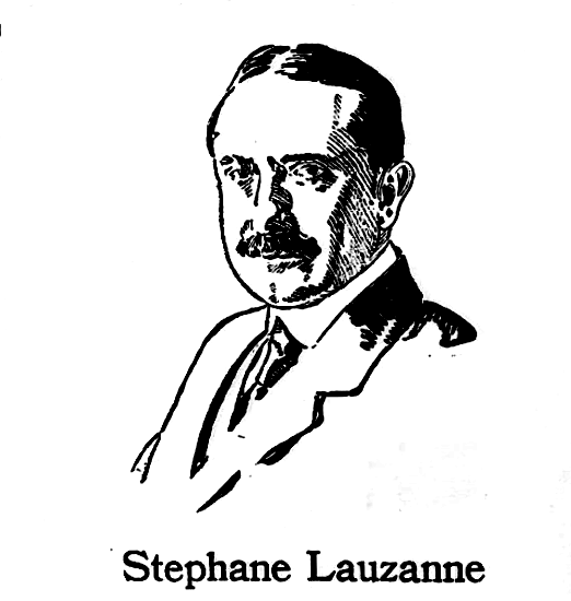 Drawing of Stéphane Lauzanne as a contributor for the New York Tribune.